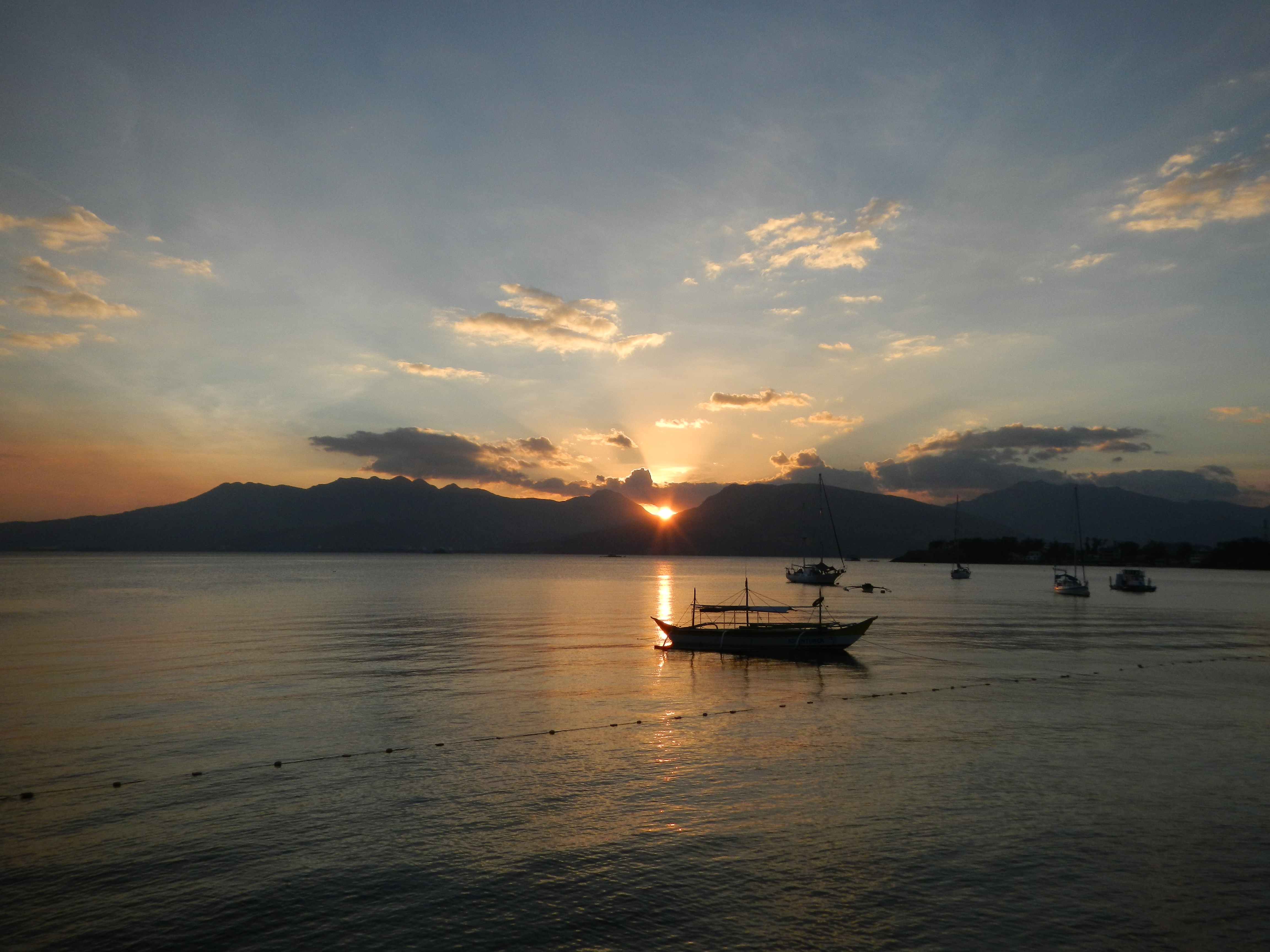 Driftwood beach, Subic, Zambales[1]Subic is a municipality in the province of Zambales, located along the northern coast of Subic Bay in the Philippines.[2]